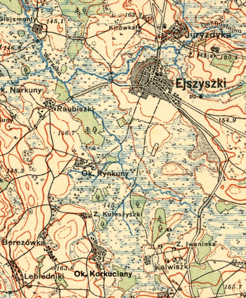 1926 map of eastern Poland showing town of Ejszyszki with its environs including hamlet of Korkuciany where Jewish families were rescued by the Poles between May 1942 and July 1944